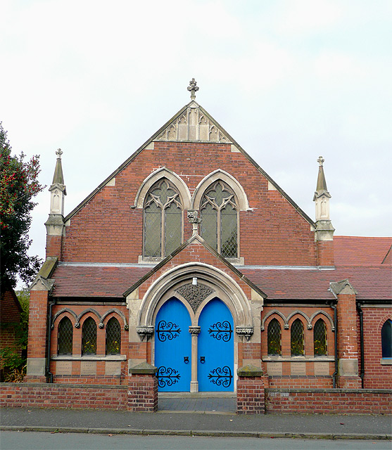 Methodist Church, Post Office Road, Alrewas, Staffordshire, built in 1928.When the Methodist Union took place in 1932, the Wesleyan and Primitive Churches in the village joined together for worship in the present building. In 1975 an extension was added to the schoolroom, providing new kitchen and toilet facilities.(Information from the church's own website).